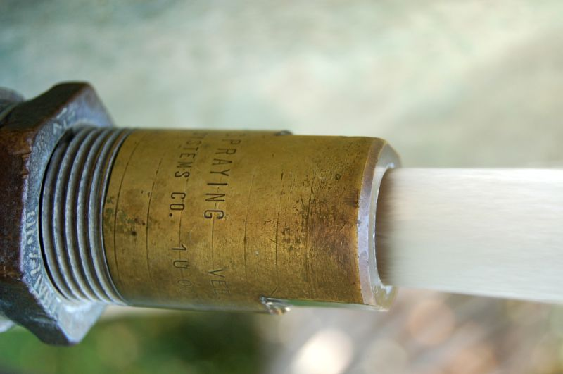 The nozzle of a water hose or tube.